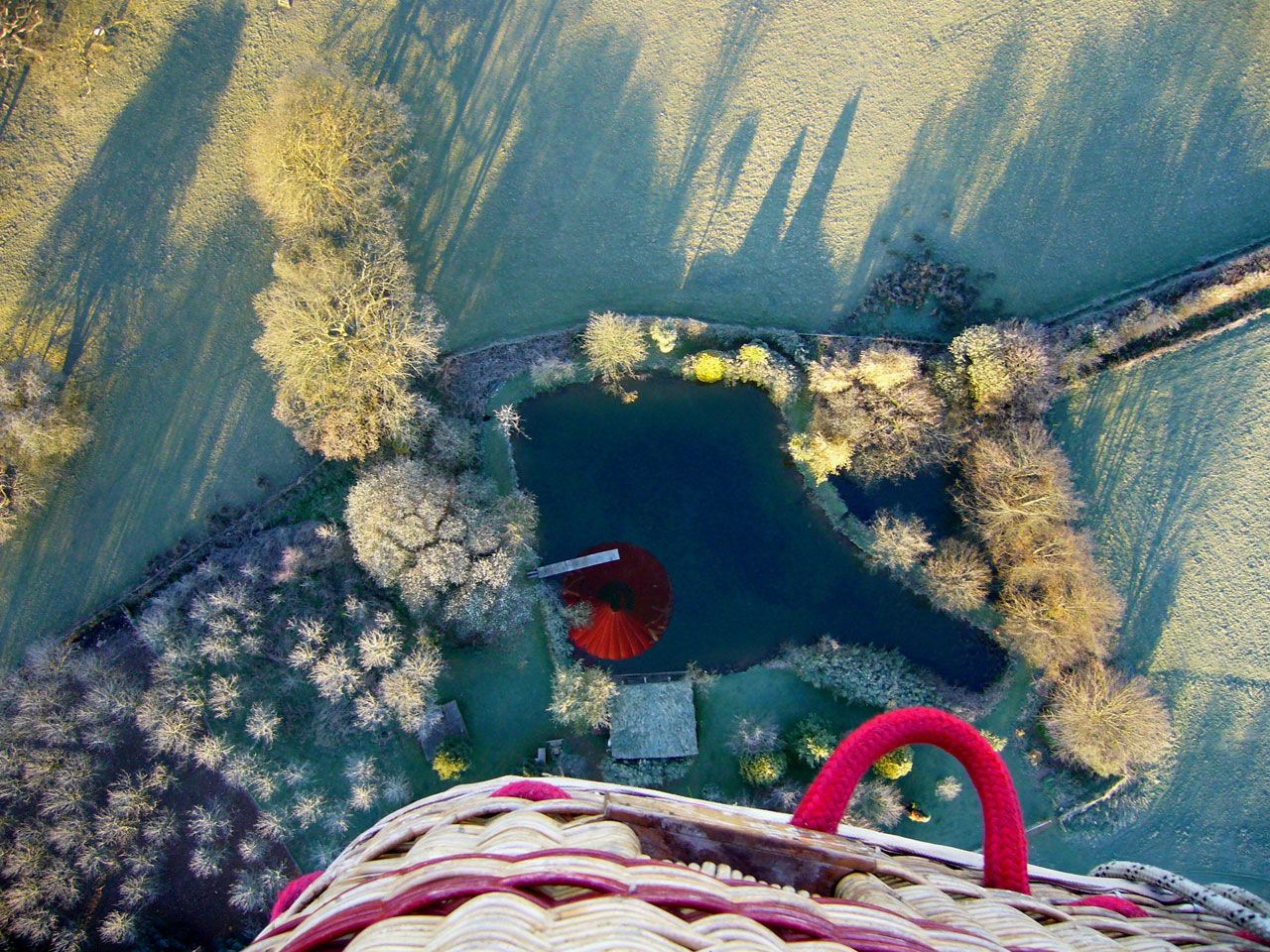 Public Domain , uploaded by Anna Cervova